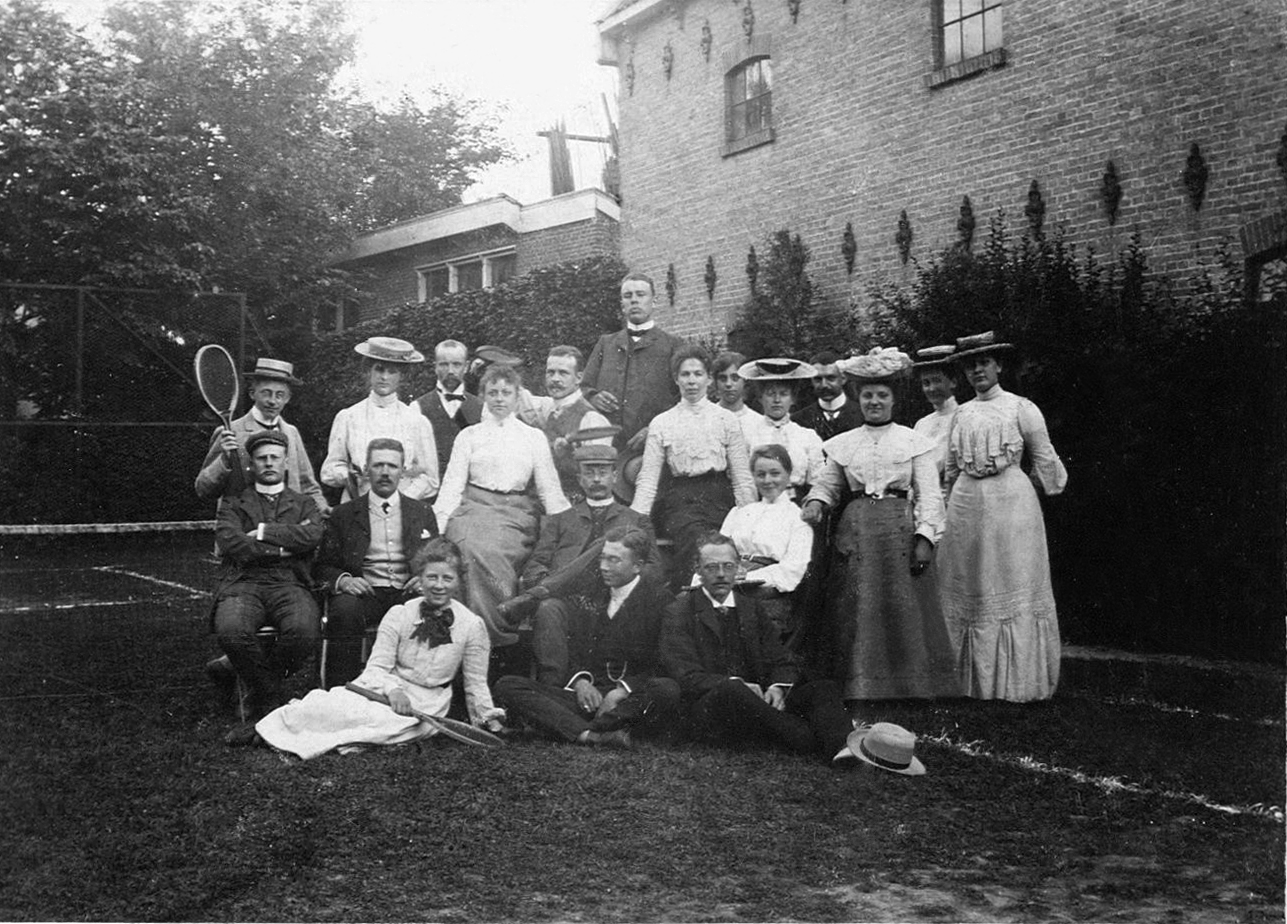 Some of the first members of LTC De Vliegende Bal (1905).